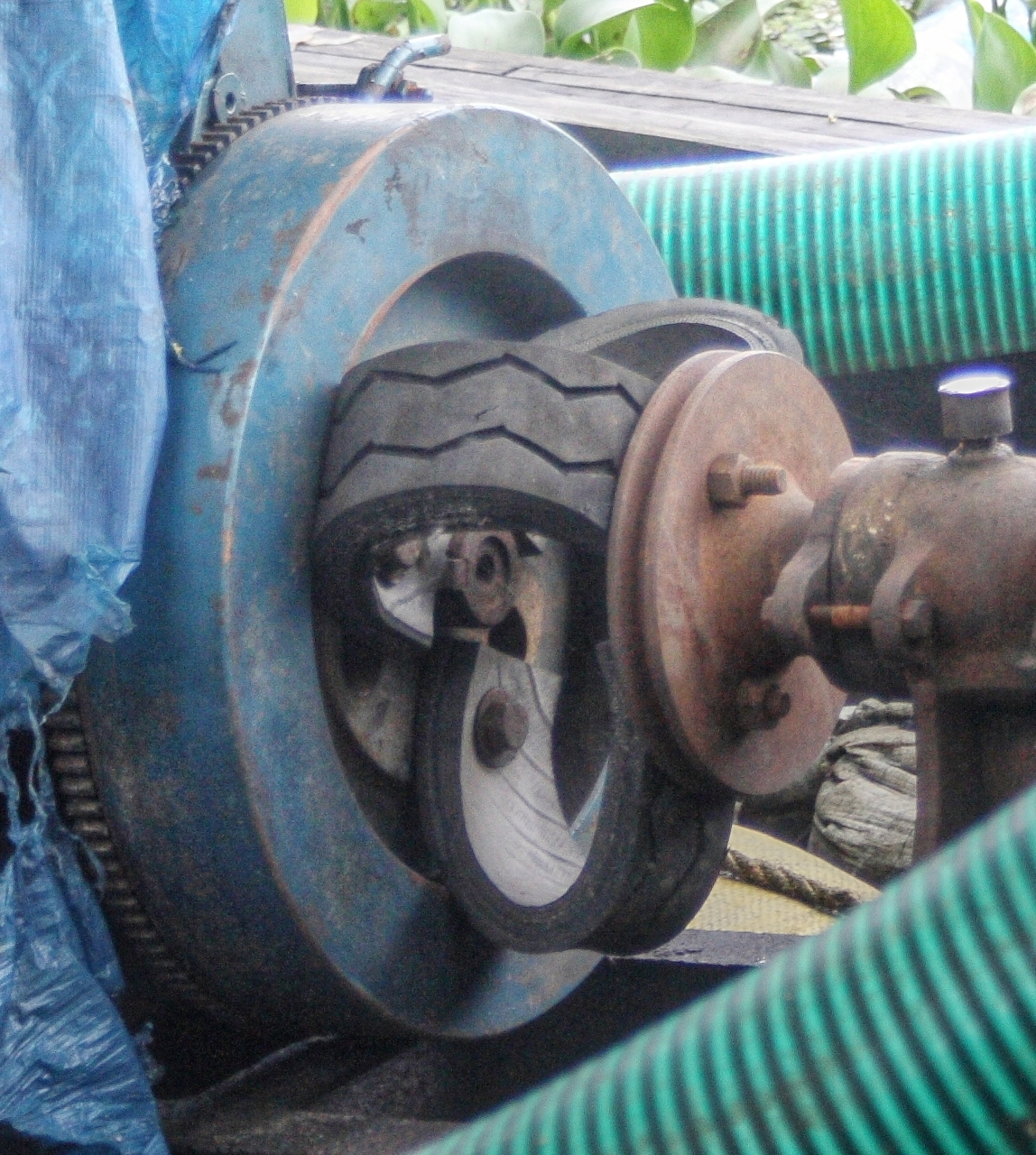 A flexible coupling made of car tire pieces connects the drive shafts of an engine and a water pump. Elastic coupling fit to cancel out radial misalignment and vibrations. Seen on a small wooden boat in the Backwaters of Kerala at a fish farm.